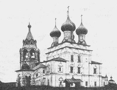 Constantine_and_Helena_Church, photo_from_the_book_by_Lukomsky "Vologda in its antiquity" 1907